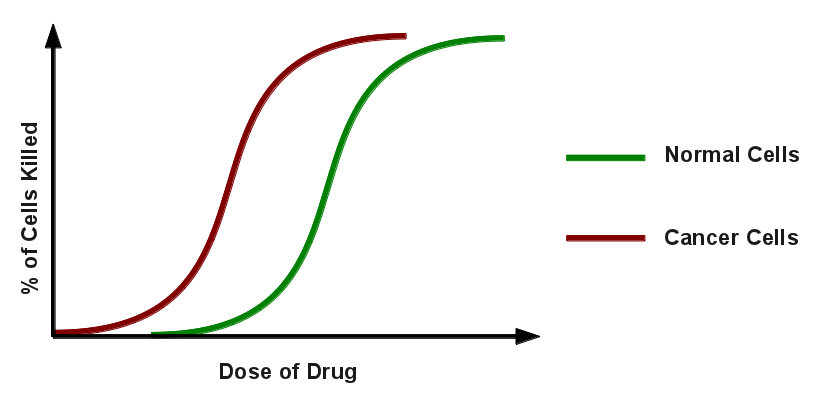 Dose response relationship of cell killing by chemotherapeutic drugs on normal and cancer cells. Adapted from:[1]